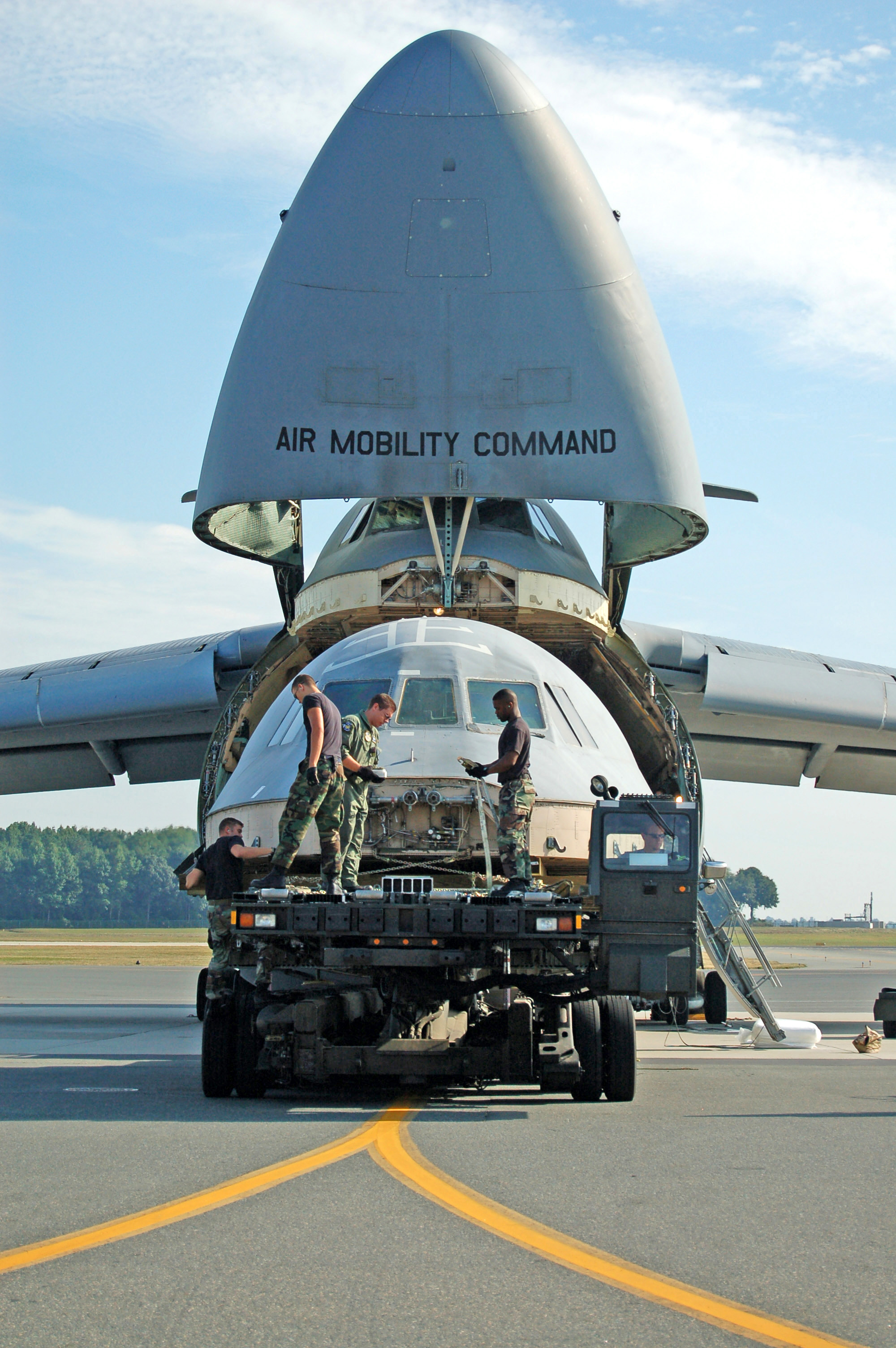 (Left to right) Staff Sgt. John Rollins, Airman 1st Class Shain Brower, Staff Sgt. Stuard Smith II and Senior Airman Joseph Moseley load a C-5 Galaxy flight deck onto another C-5 for transport to Robins Air Force Base, Ga. The flight deck from the C-5 that crashed April 3 will be used to as a training simulator. Sergeant Rollins and Airmen Brower and Moseley are assigned to the 436th Aerial Port Squadron; Sergeant Smith is with the 9th Airlift Squadron.